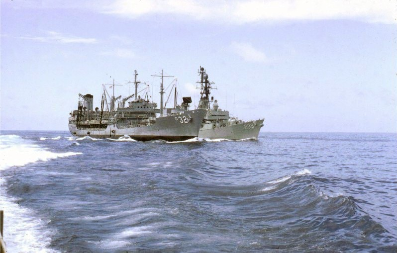 The U.S. Navy Cimarron-class fleet oiler USS Guadalupe (AO-32) refueling the Australian guided missile destroyer HMAS Hobart (D39) in the spring of 1967. HMAS Hobart was taking part in Operation "Sea Dragon". During the Vietnam War, "Sea Dragon" was a series of naval operations beginning in 1966 to interdict sea lines of communications and supply going south from North Vietnam to South Vietnam, and to destroy land targets with naval gunfire. The primary purpose of Sea Dragon forces was the interception and destruction of water borne logistic craft (WBLC), which ranged in size from large self propelled barges down to small junks and sampans.